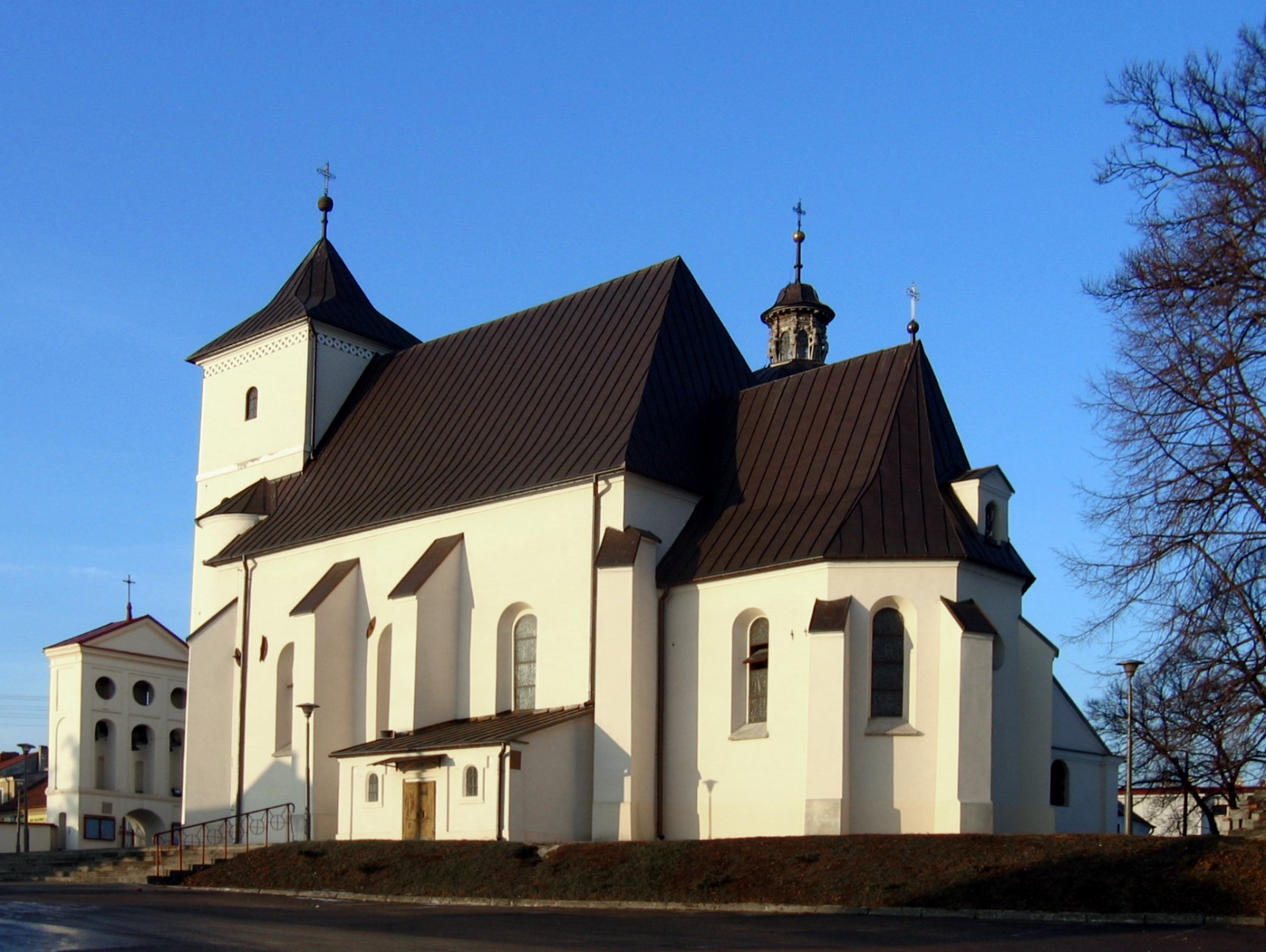 Old Town, St. Bartłomiej church in Staszów, Poland.